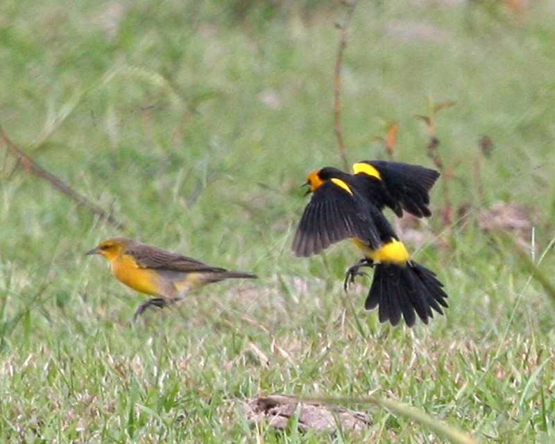 Saffron-cowled Blackbird (Xanthopsar flavus) at Ibera wetlands, Argentina. Xanthopsar flavus, aka Oriolus flavus, Agelaius flavus Names: Tordo amarillo, Tordo de cabeza amarilla Spanish (Argentine): Tordo amarillo